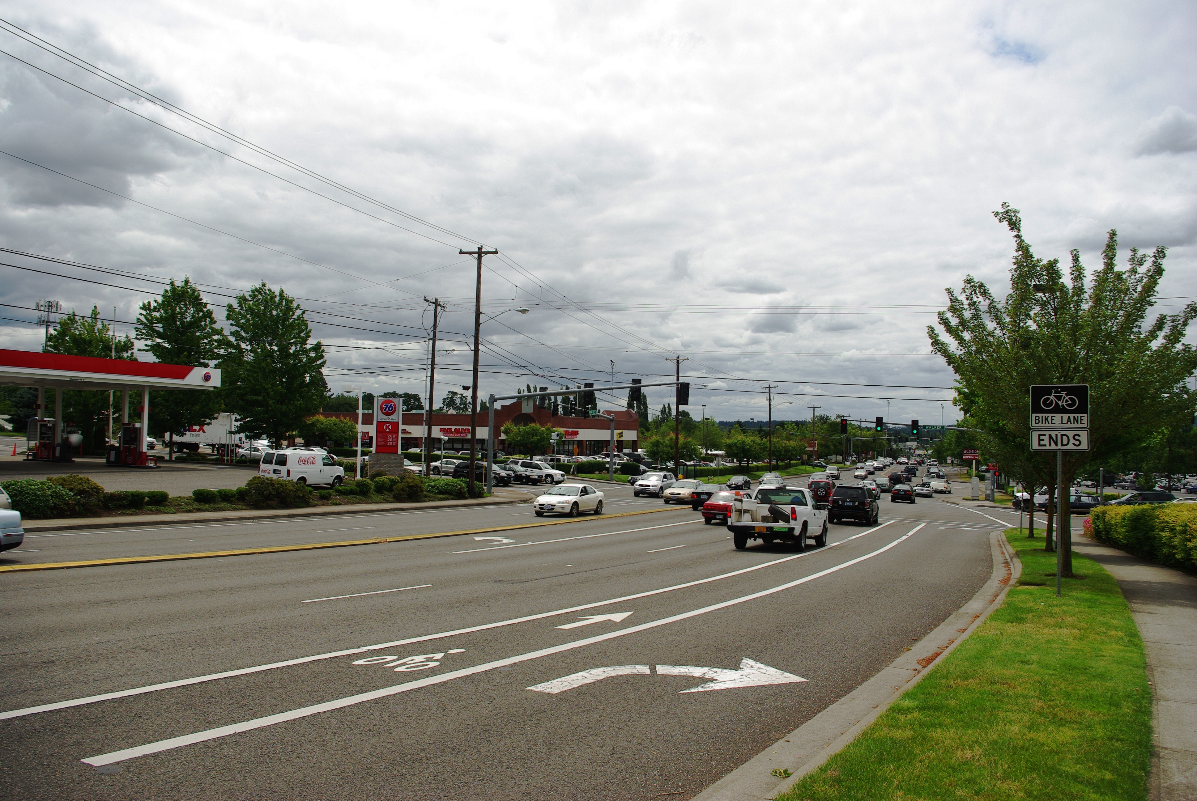 Cedar Hills Blvd. in Beaverton, Oregon. This is looking south from just south of the "Cedar Hills" CDP area.